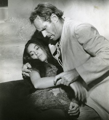 Taylor (Charlton Heston) cradles a dying Nova (Linda Harrison) in Beneath the Planet of the Apes